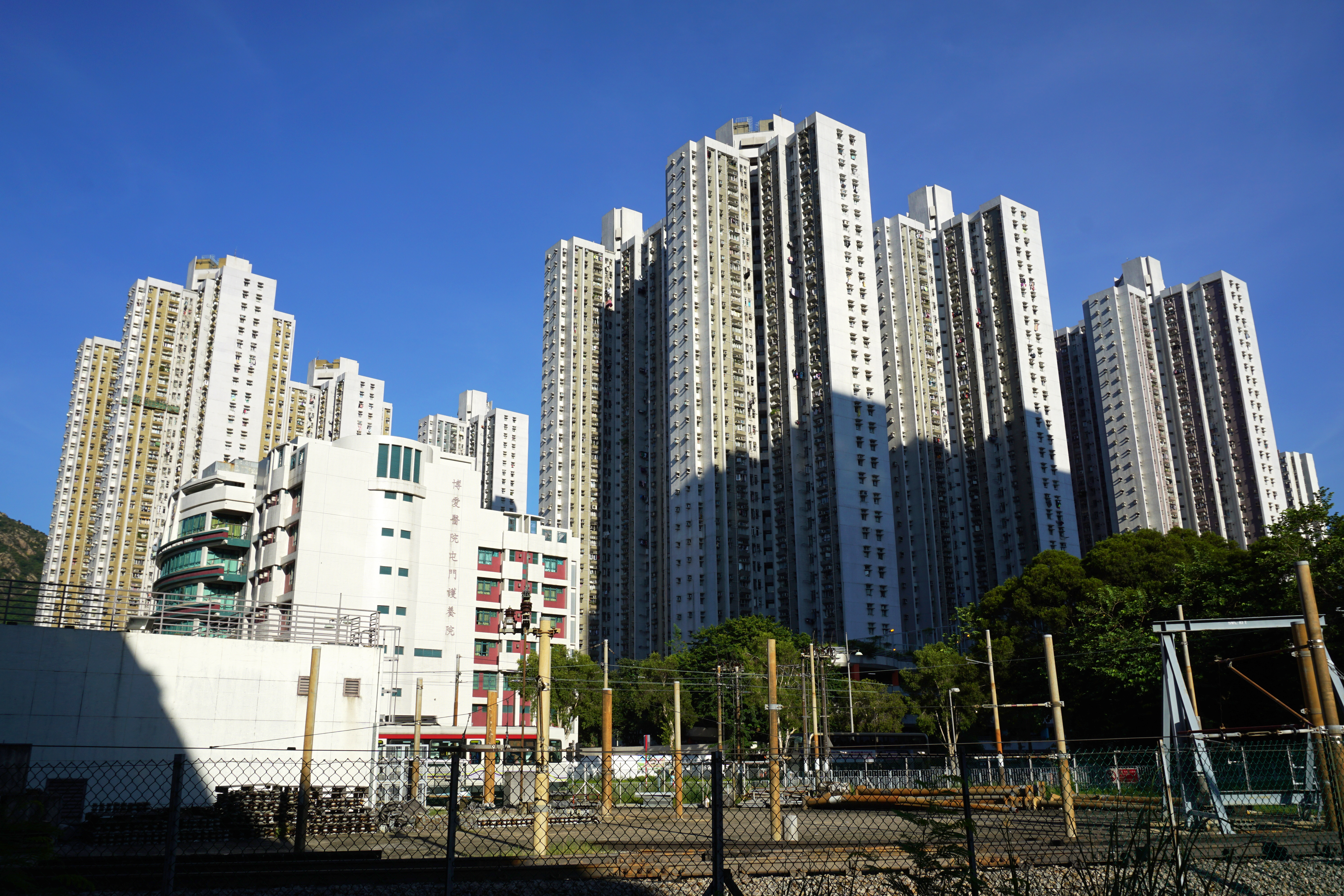 Siu Lun Court in Tuen Mun, Hong Kong.